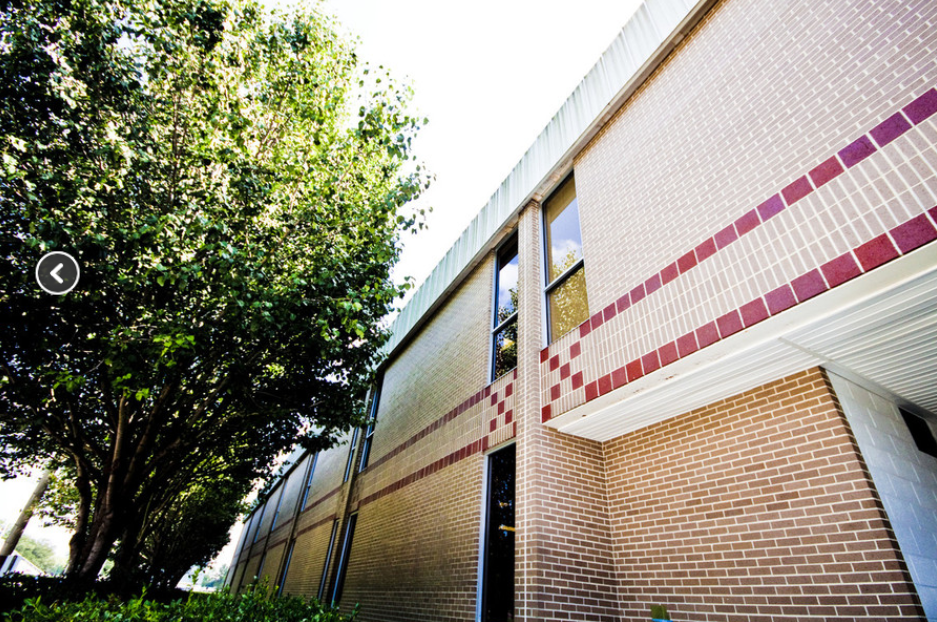 Destrehan High School Humanities Building (Building "B")